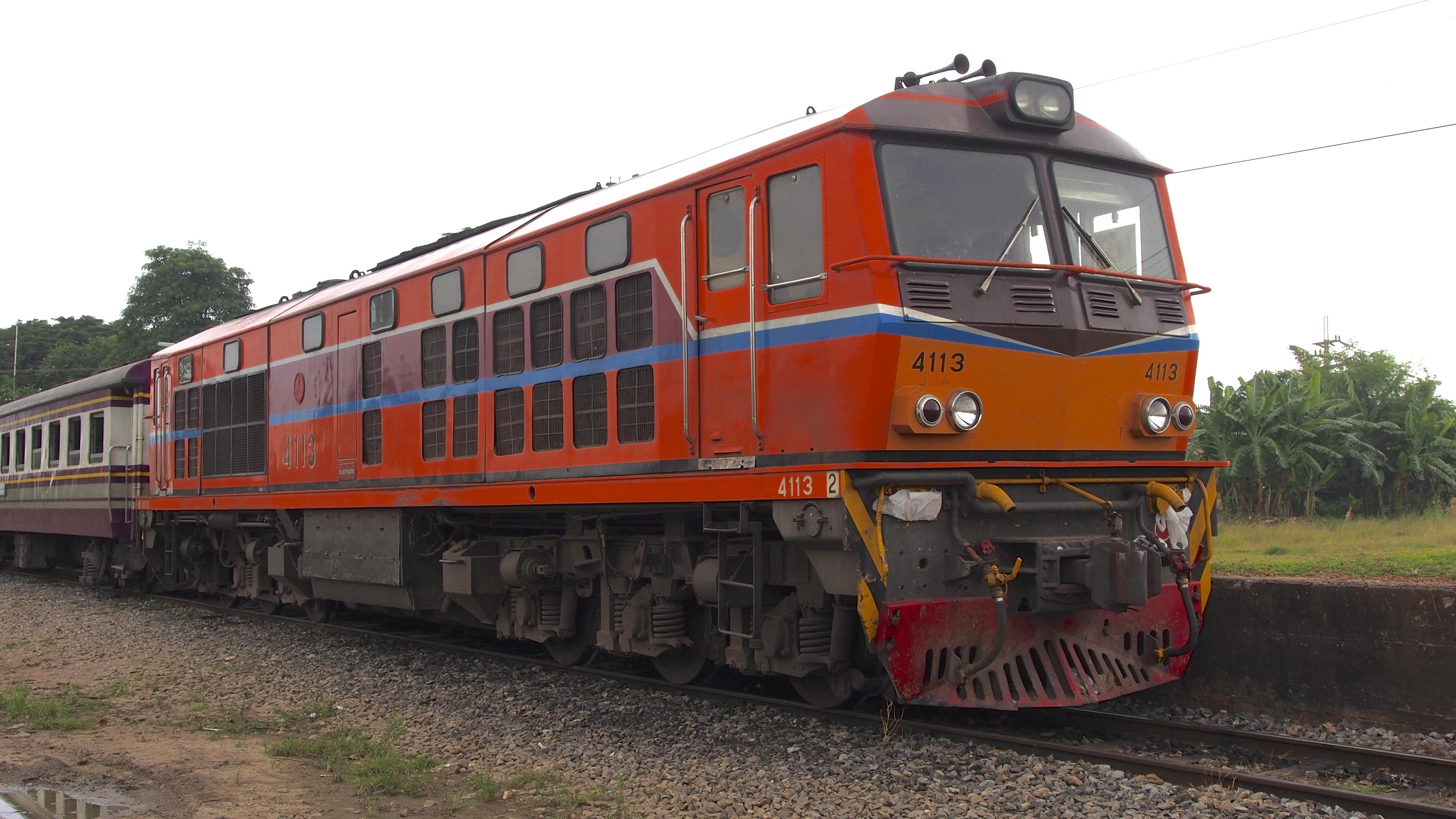 Alstom AD24C Locomotive Aranyaprathet Railway Station This station is 10 minute tuk-tuk ride from the border and costs only $3.00. The train fare is 48baht or about $1.60.